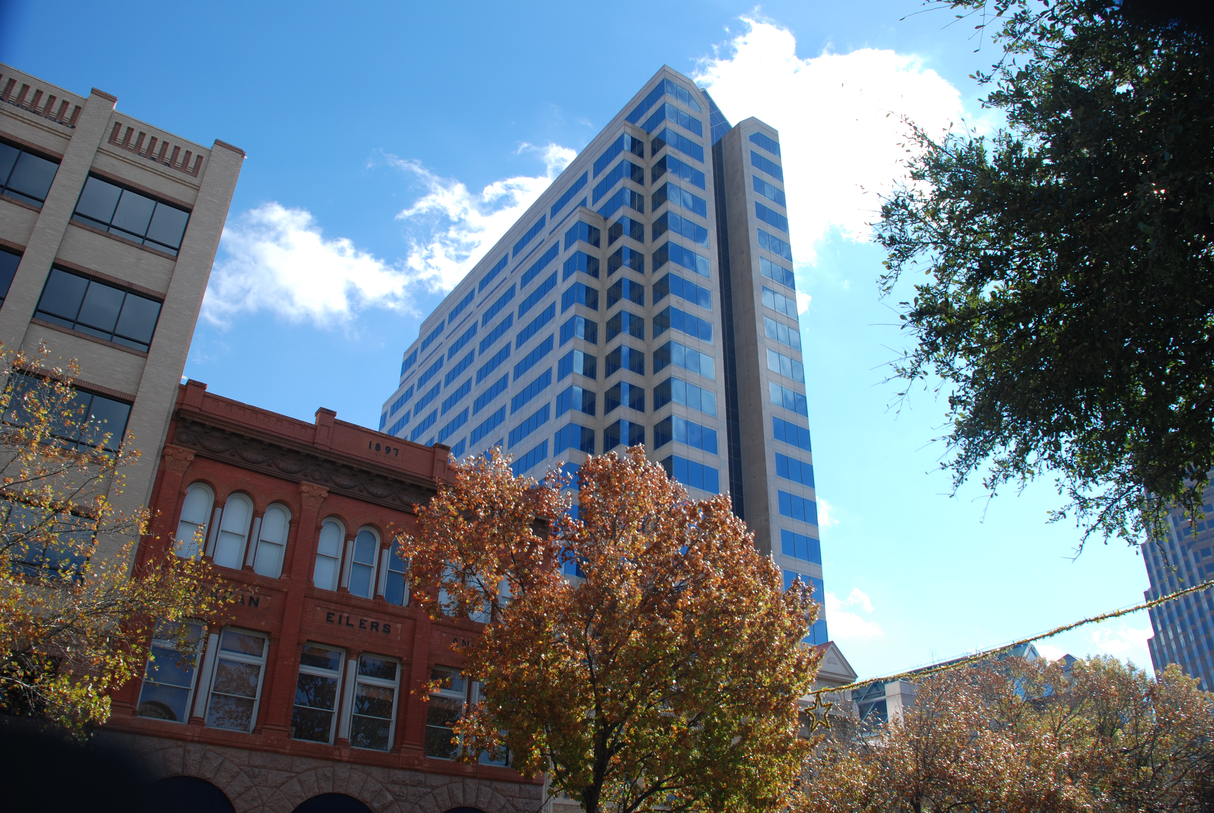 301 Congress Tower, Austin - has the headquarters of Schlotzsky's